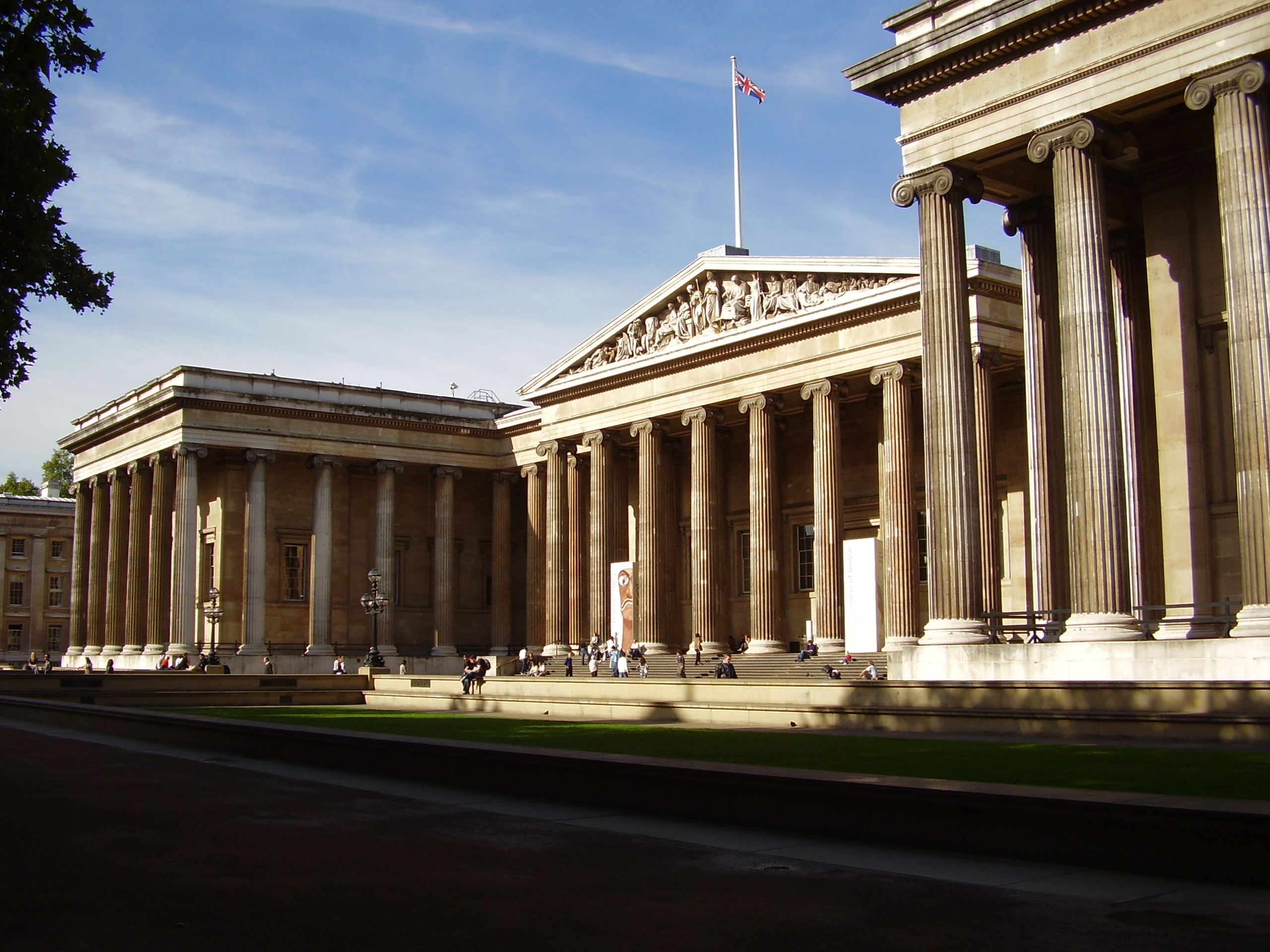 Façade of the British Museum